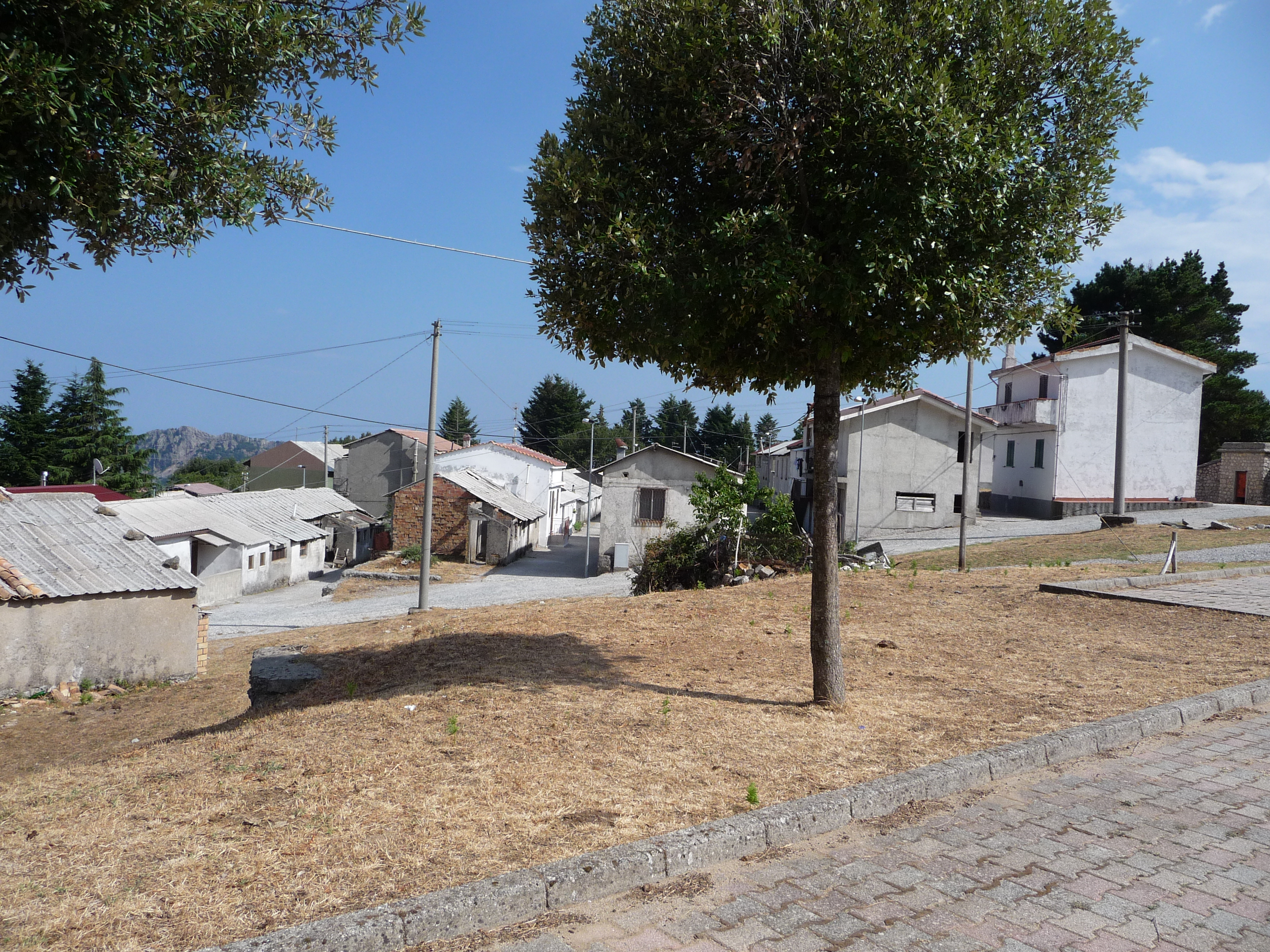 Houses of Ziia (Caulonia -RC) Italy